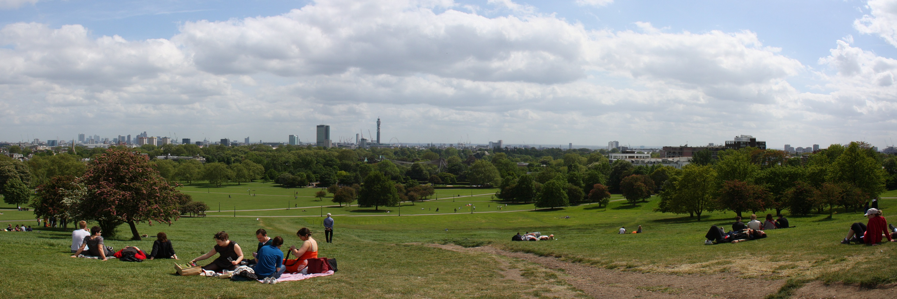 A panoramic photograph taken from the top of Primrose Hill in London, England.